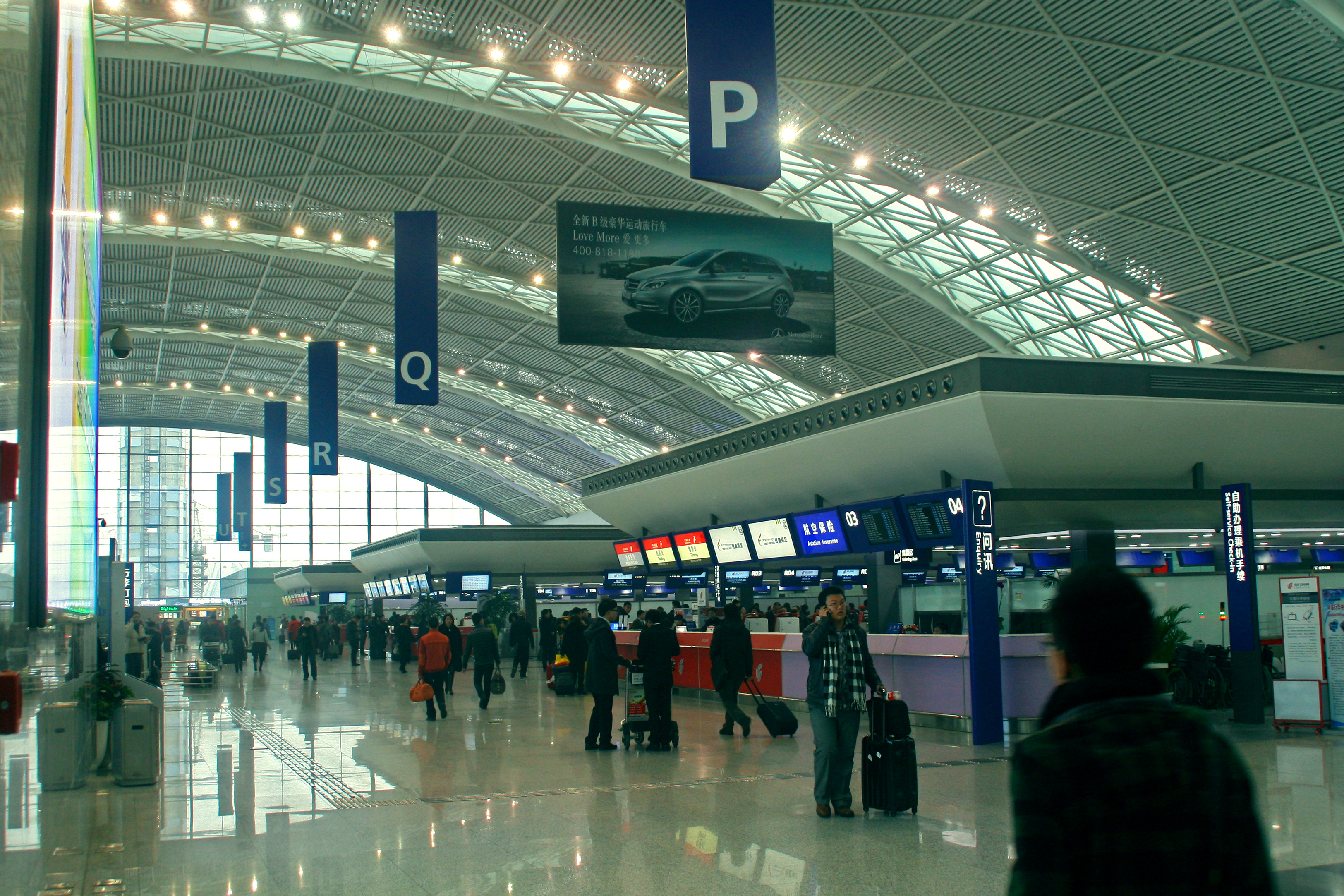 Check-in Counters in Terminal 2, Chengdu Shuangliu International Airport.